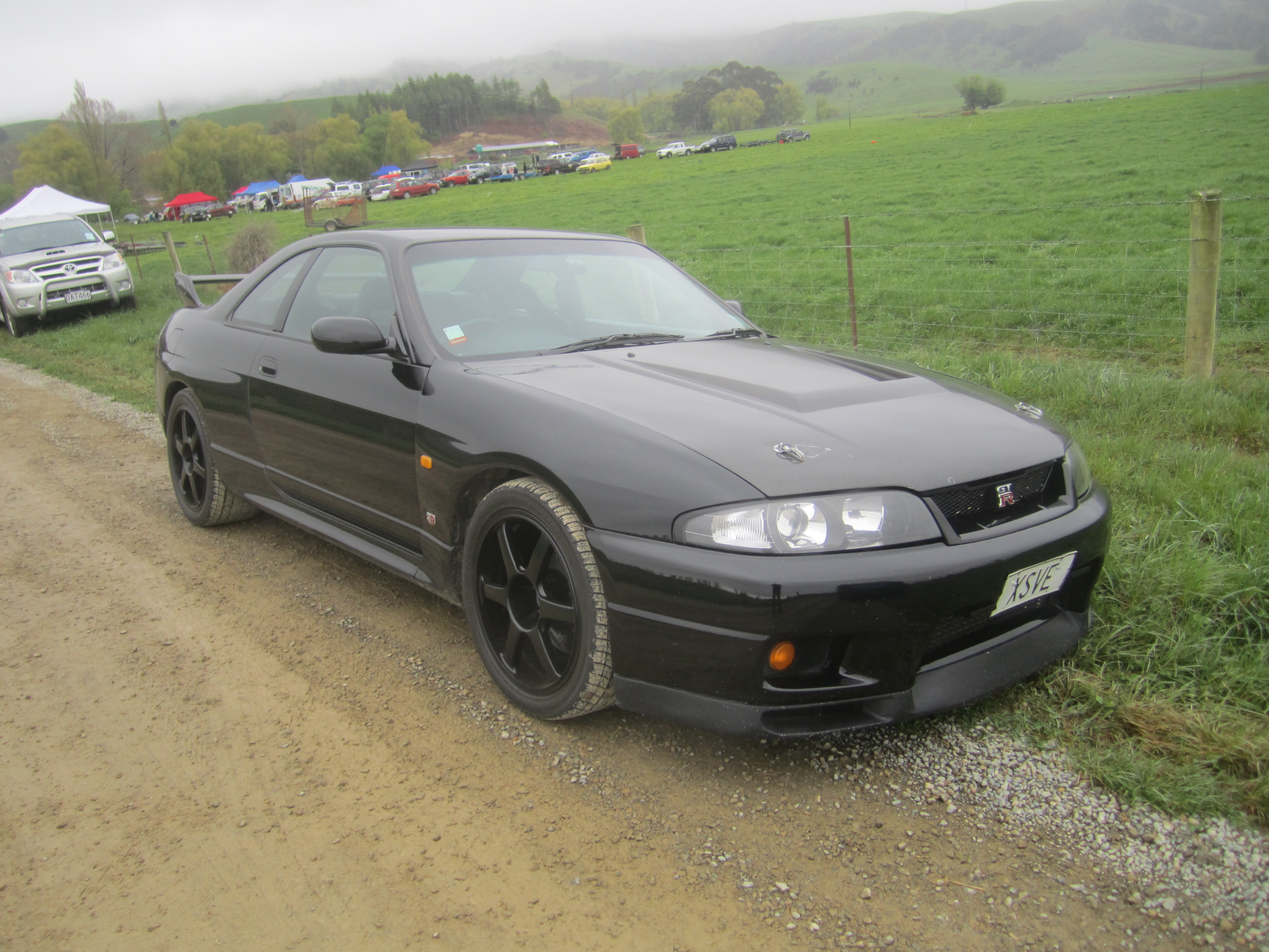 This is the 4th generation Skyline built from 1995-98. The GTR got the twin turbo 2600cc 6 cyl and the V-spec got stiffer, lower suspension and All Wheel Drive. Photographed at the 2011 Waimate 50 motoring event In NZ.